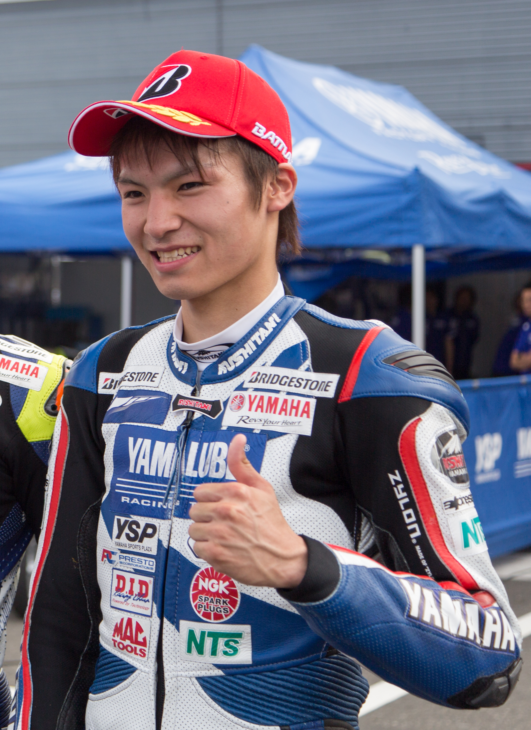 Kohta Nozane at Twin Ring Motegi in 2016